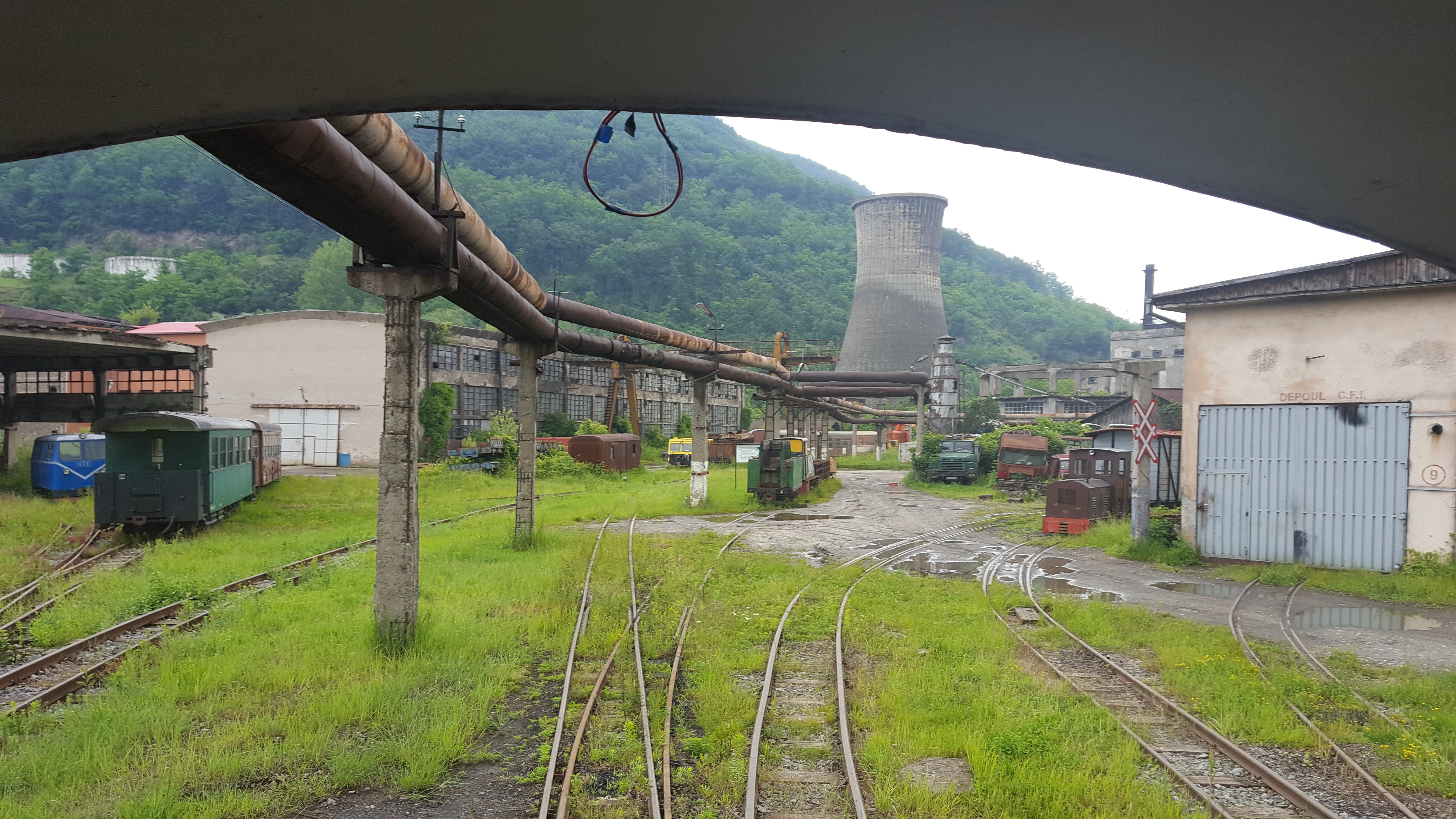 A yard of a former andezite plant in Crișcior, Romania, with a number of narrow-gauge railway vehicles